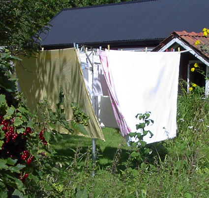 Clothes hanging outdoors to dry.